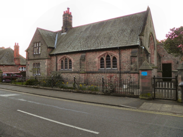 Photograph of Walton Village Hall near Warrington